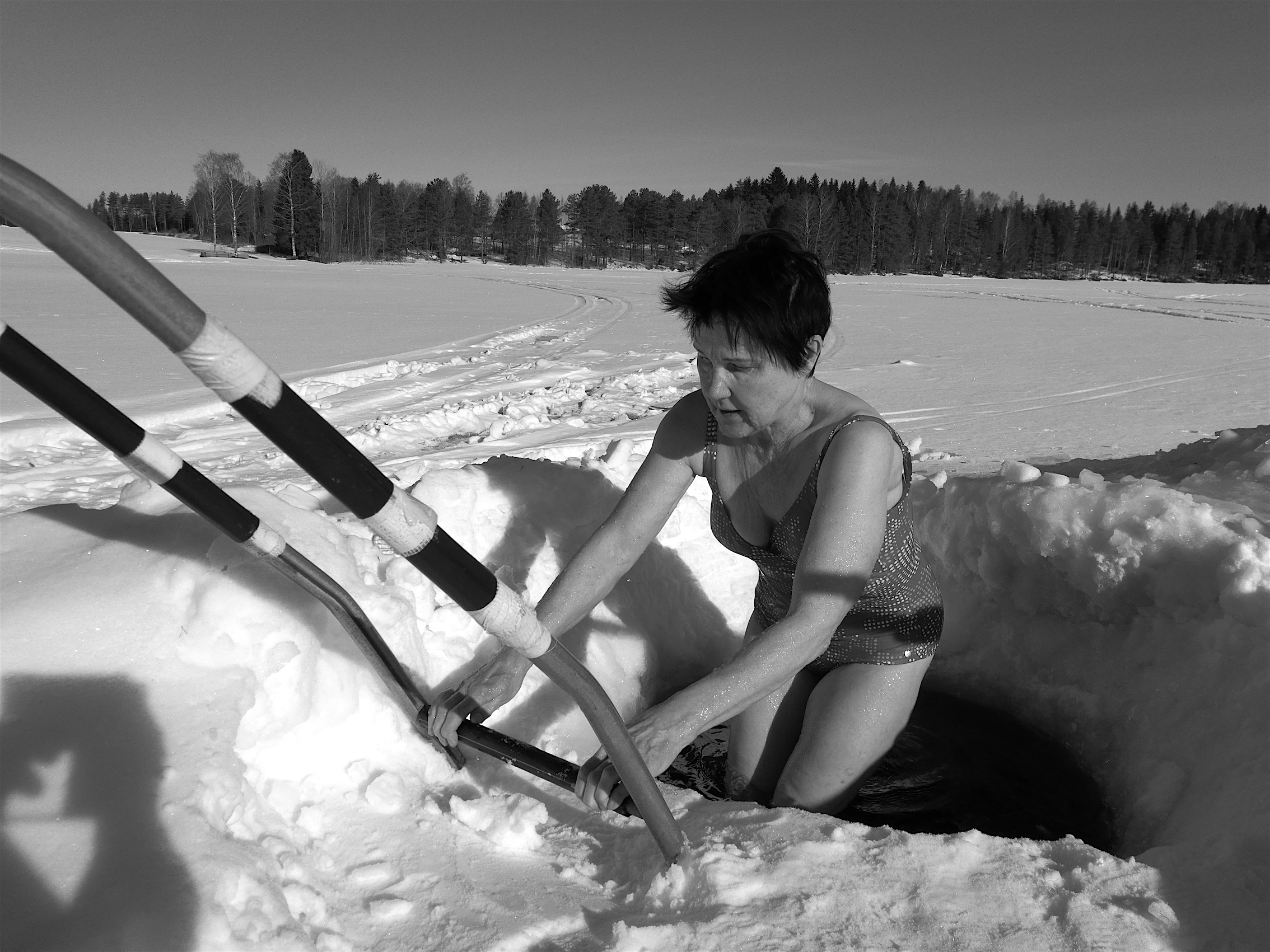 Ice Hole Swimming in Aurejärvi